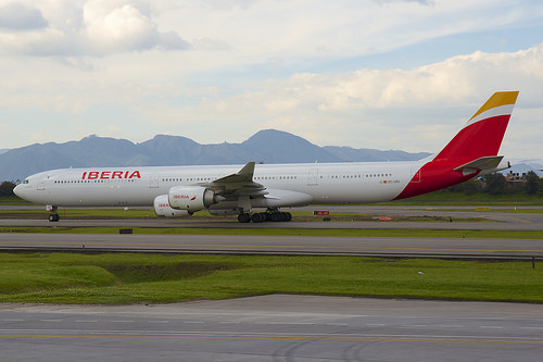 Iberia Airbus 340-600 aircraft taxiing at Bogotá El Dorado International Airport.